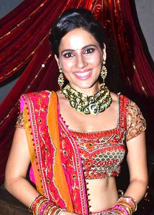 Kanchi Kaul at her Sangeet (pre-wedding ceremony).